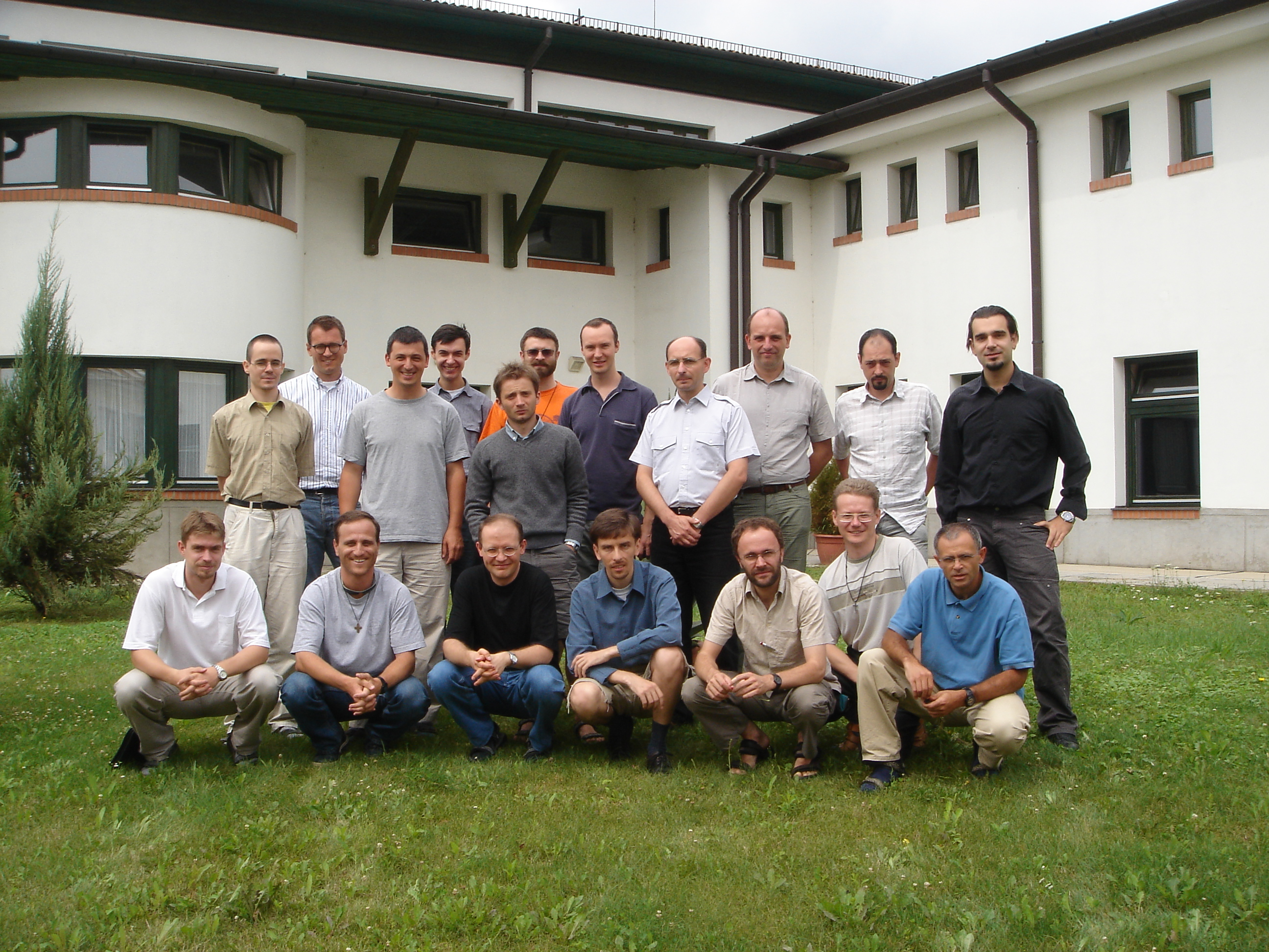 This picture was taken in Miskolc during the annual meeting of young Hungarian scholastics of the Society of Jesus.